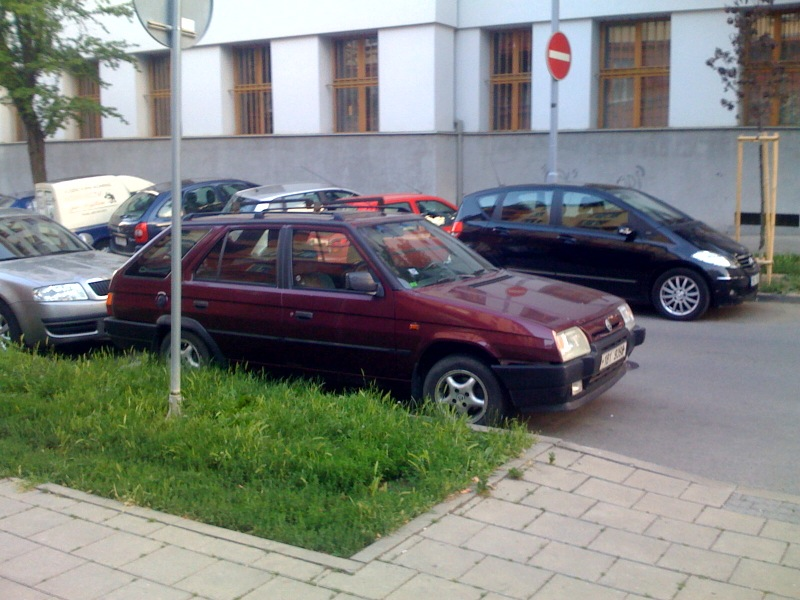 Skoda Forman Solitaire